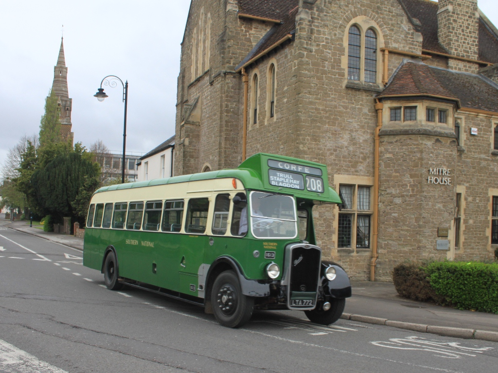 Southern National 1613 (registration LTA 772), a Bristol LWL with Eastern Coach Works body built in 1951, visits Taunton for a bus rally.